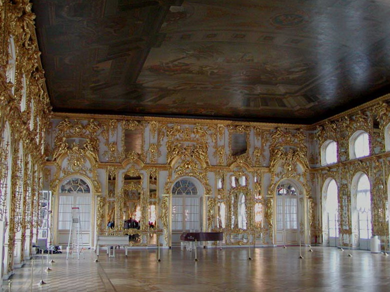 Pushkin (Russia), Great Hall of the Catherine Palace